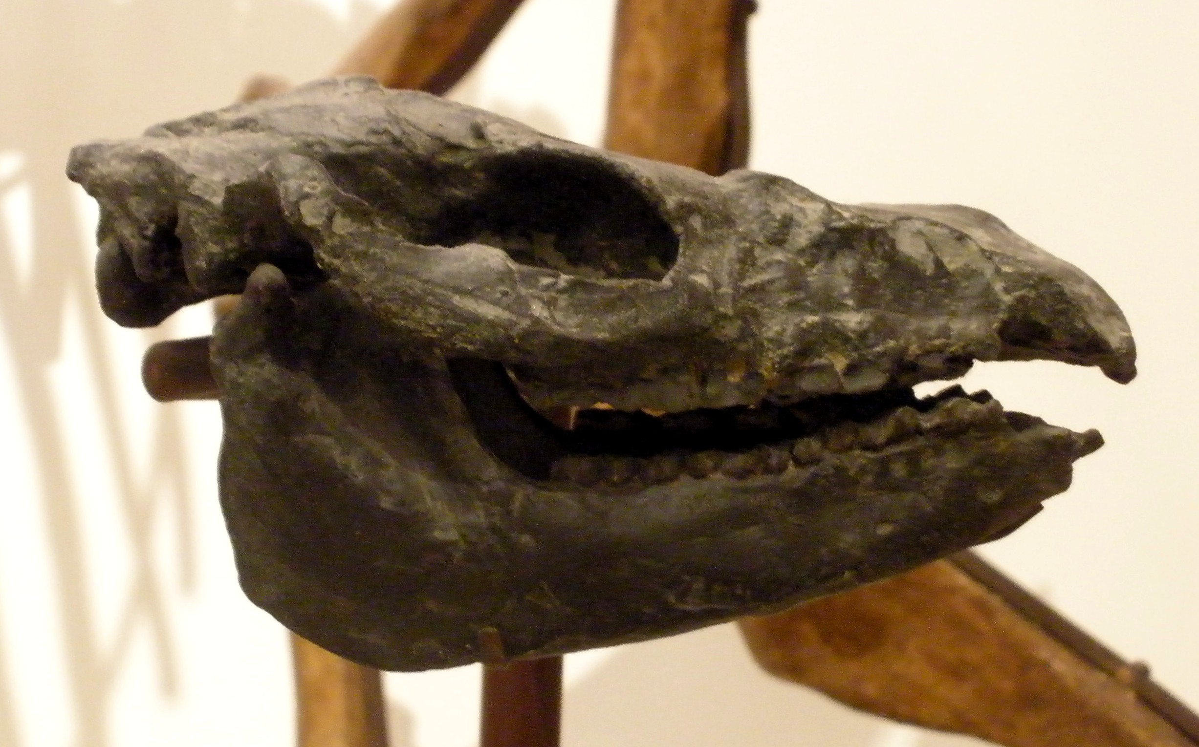 fossil of Thoatherium, an extinct litoptern